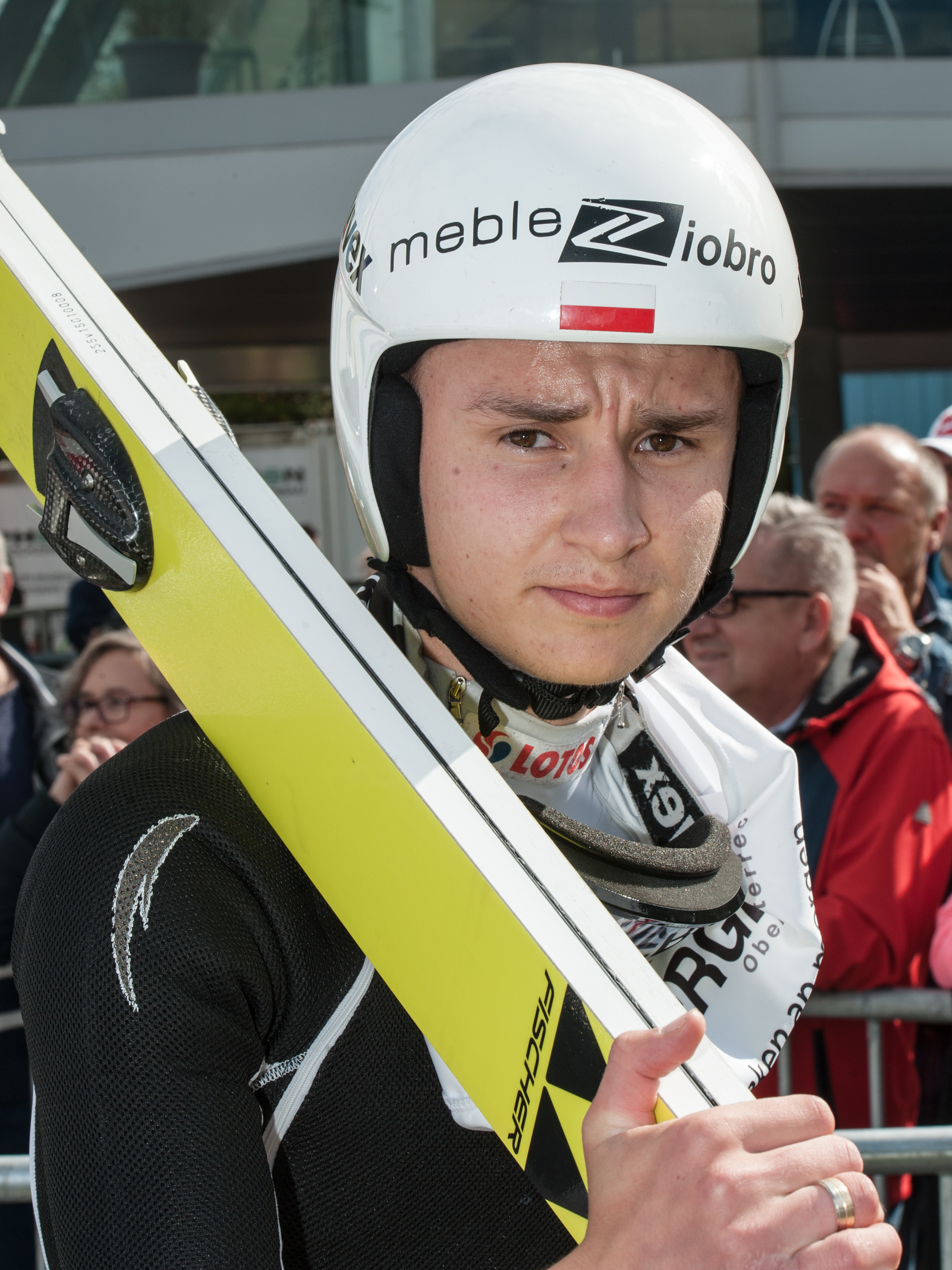 Fis Ski Jumping Summer Grand Prix in Hinzenbach, Upper Austria, 2015-09-27: Klemens Murańka